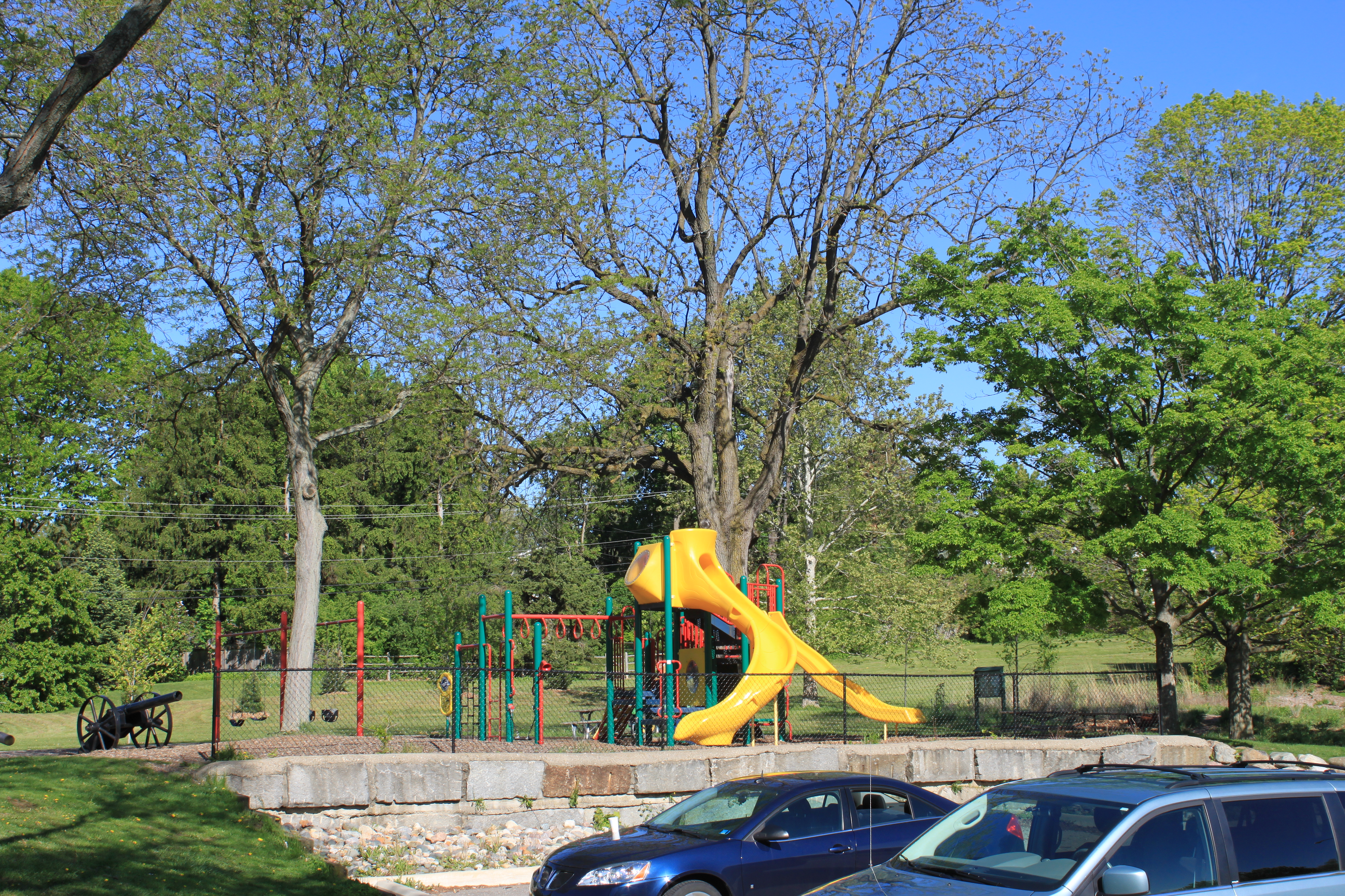 Buhr Park children's playgound, Ann Arbor, Michigan